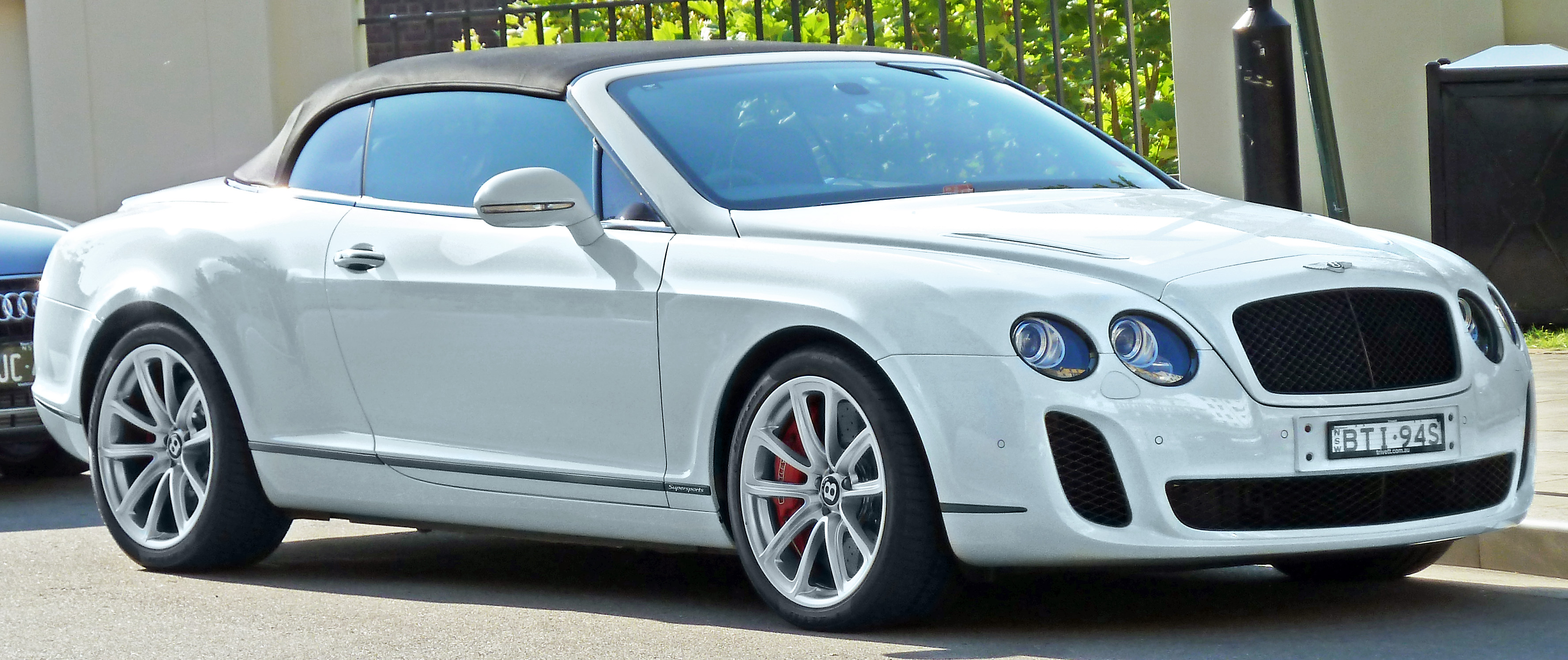 2010 Bentley Continental (3W) Supersports convertible. Photographed in Dawes Point, New South Wales, Australia.